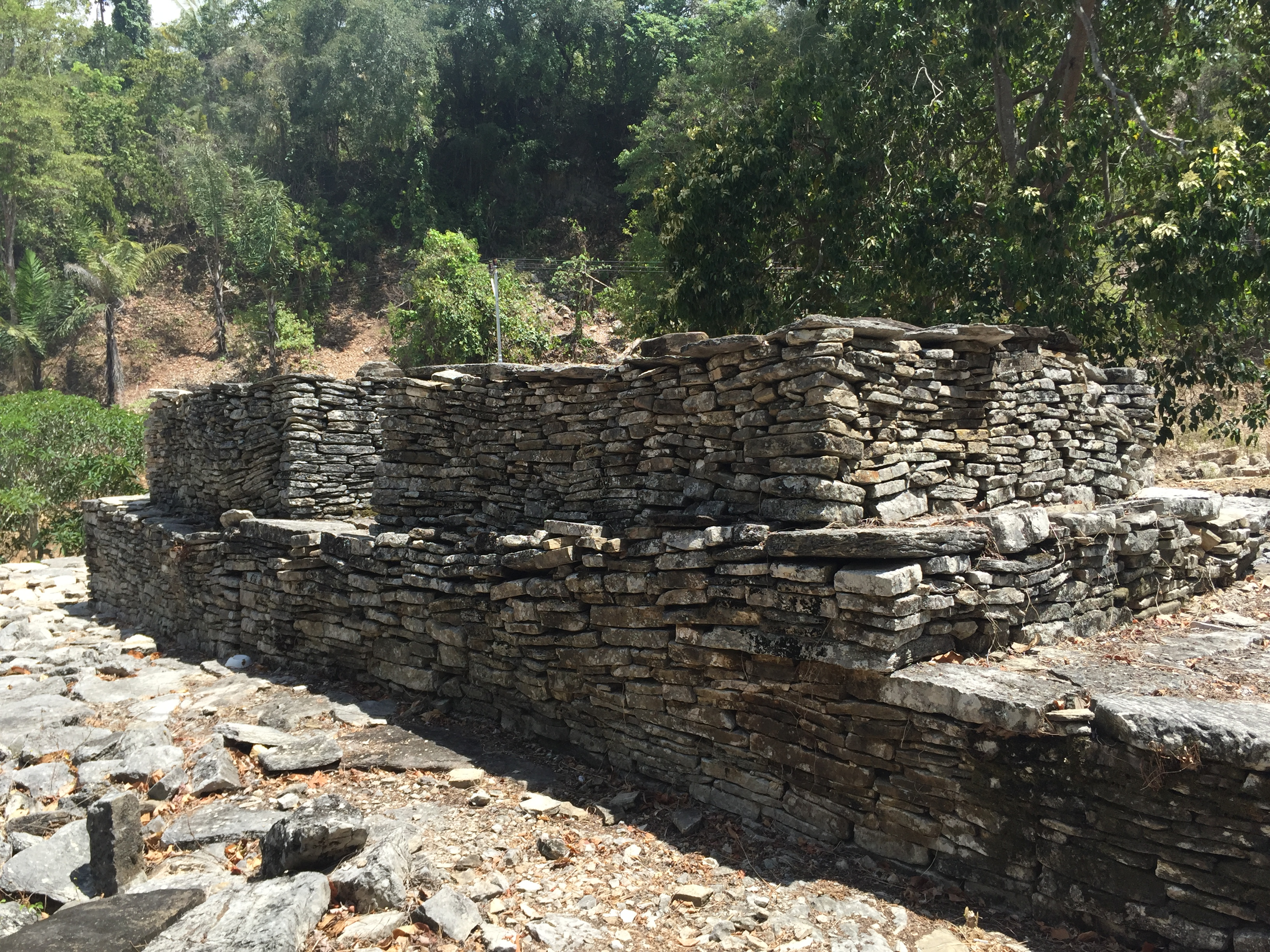 Nahasaka animist cemetery